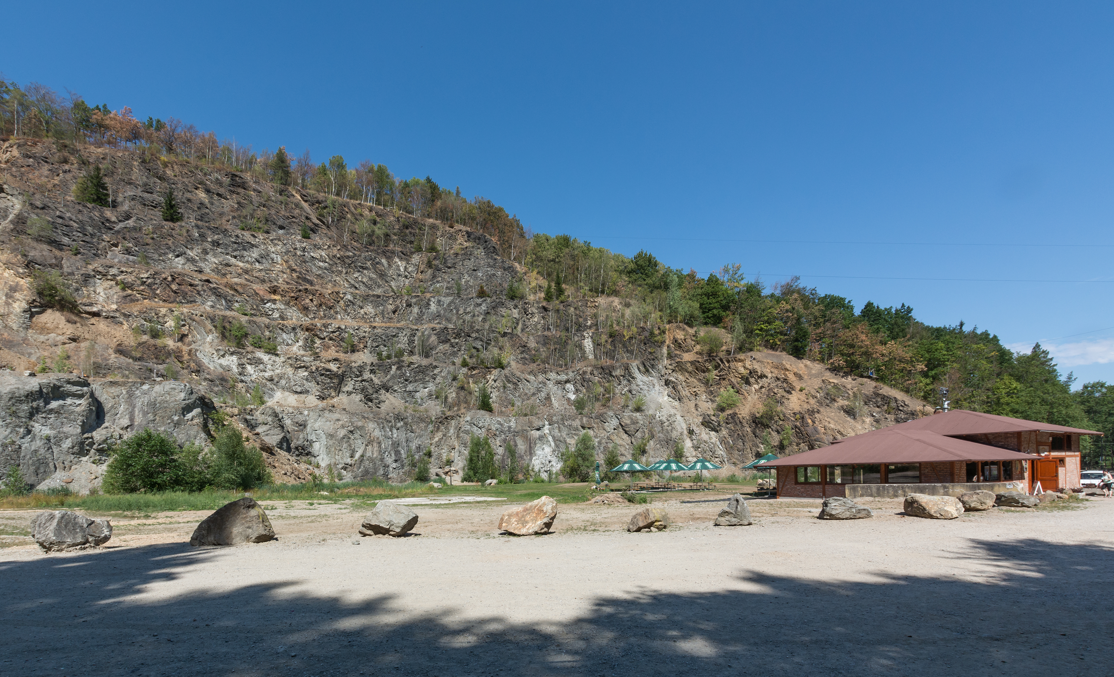 High Ropes Course Skalisko in Złoty Stok